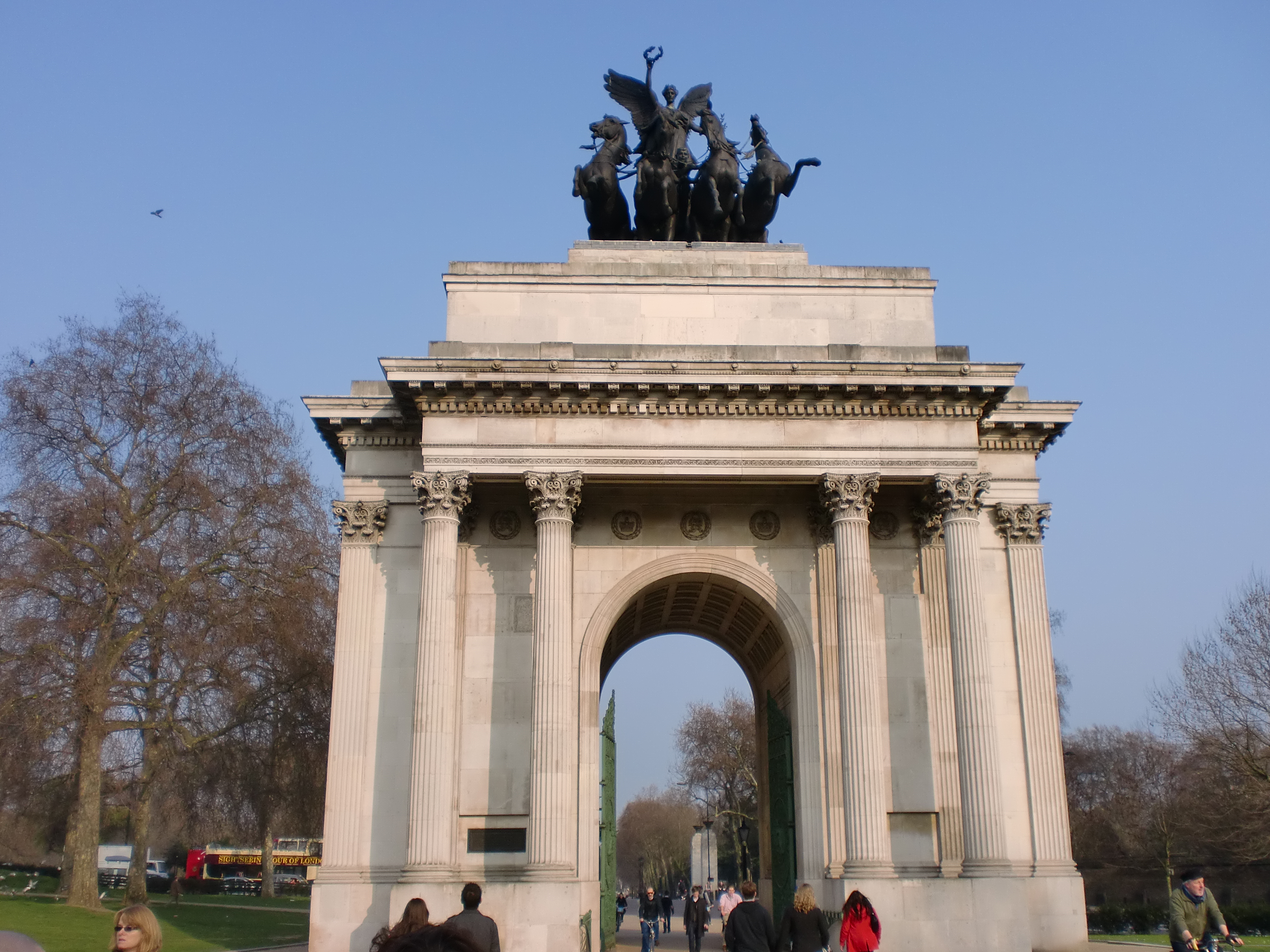 Wellington-Arch